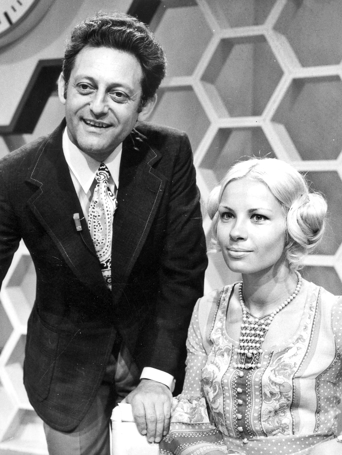 The German radio and television host, producer and entertainer Hans Rosenthal (born 2 April 1925 in Berlin, † February 10, 1987 ibid) with his former assistant, the German TV presenter Monica Sundermann in the backdrop of the common TV show "Dalli Dalli".